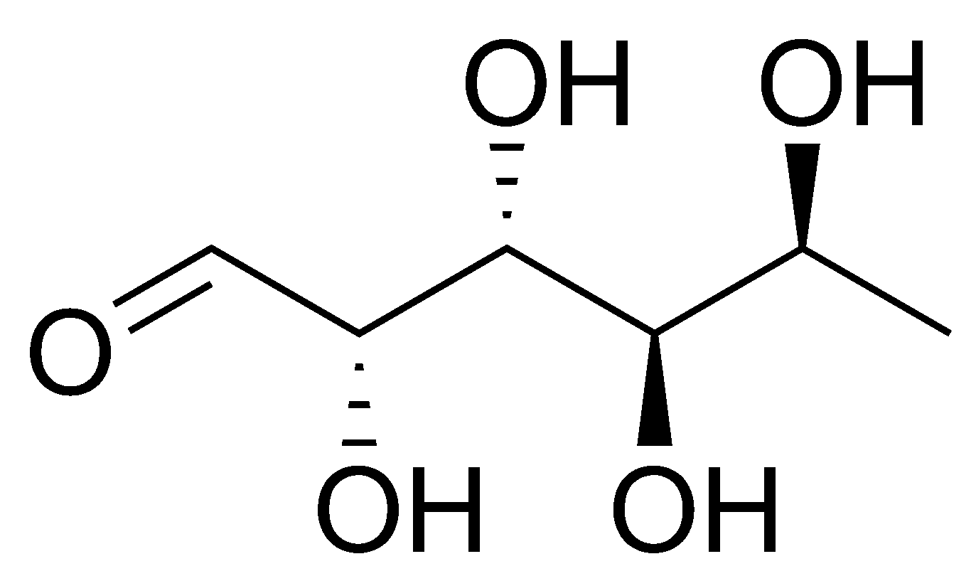 Chemical structure of Fucose